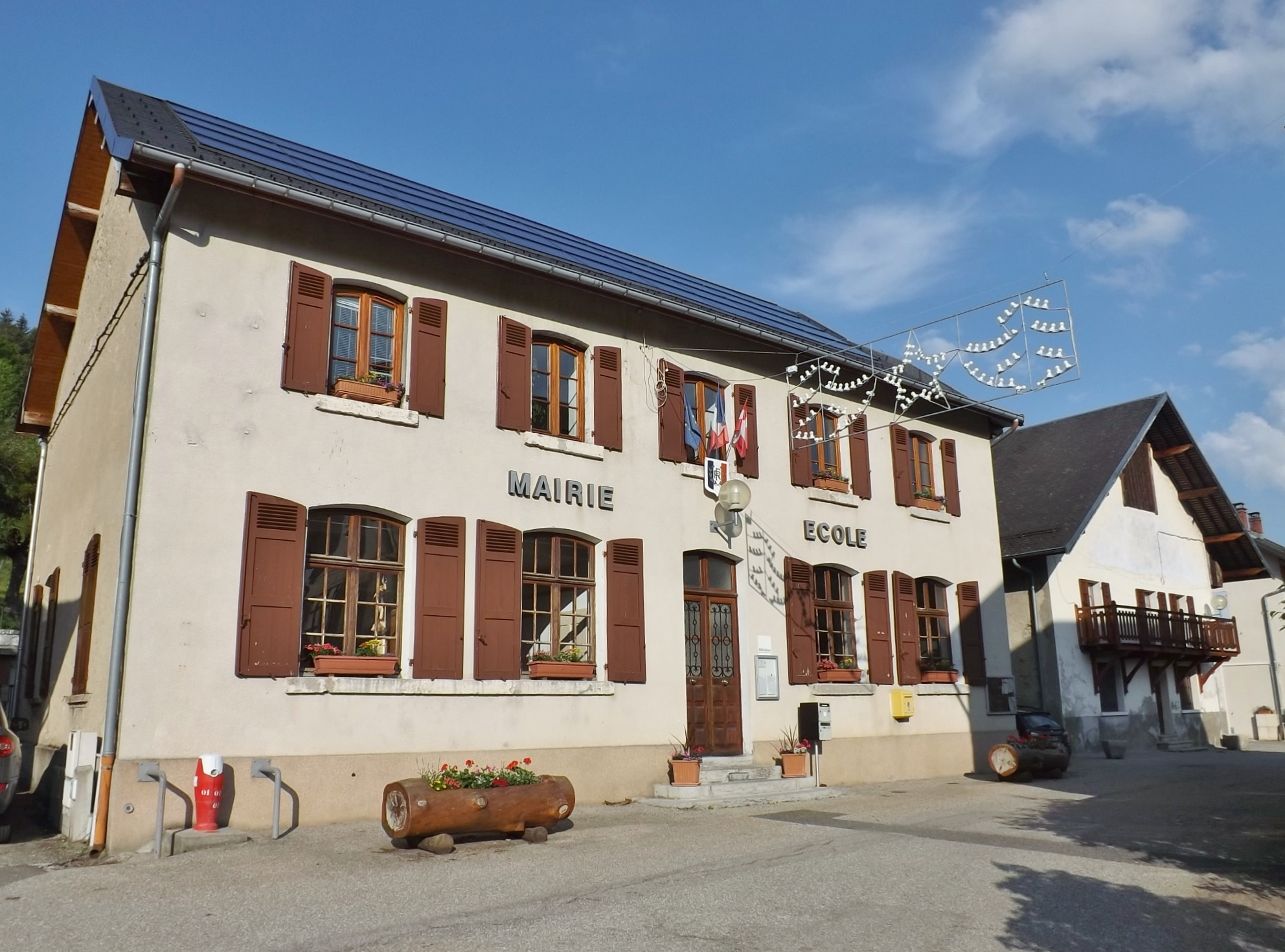 Sight of the French commune of La Thuile townhall, in Savoie.